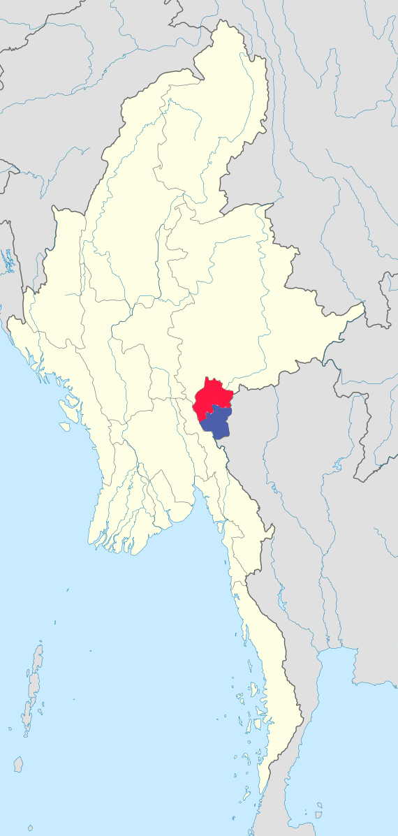 The two districts of Kayah State, Loikaw and Bawlakhae.